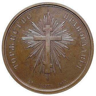 Medal of Polotsk synod, reverse, 1839